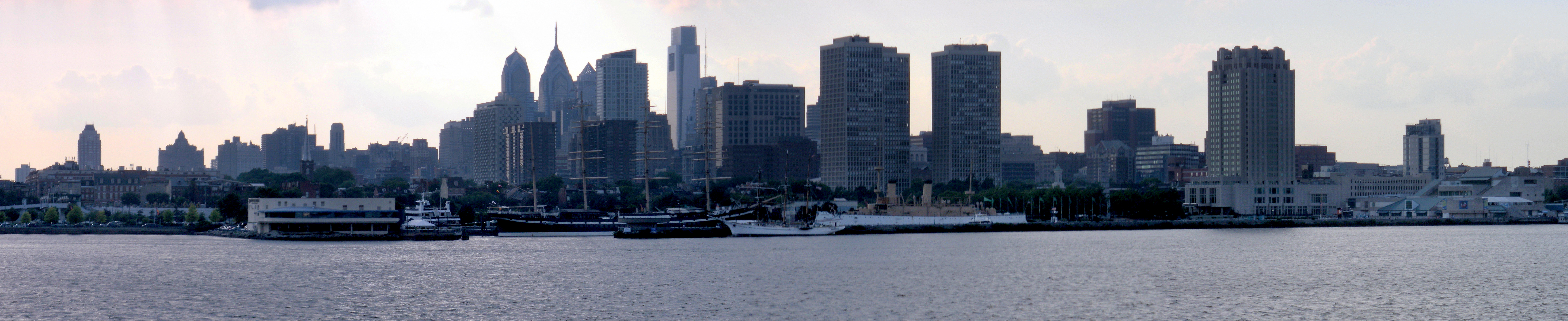 A panorama shot of the Philadelphia skyline taken from across the Delaware River in Camden, New Jersey.